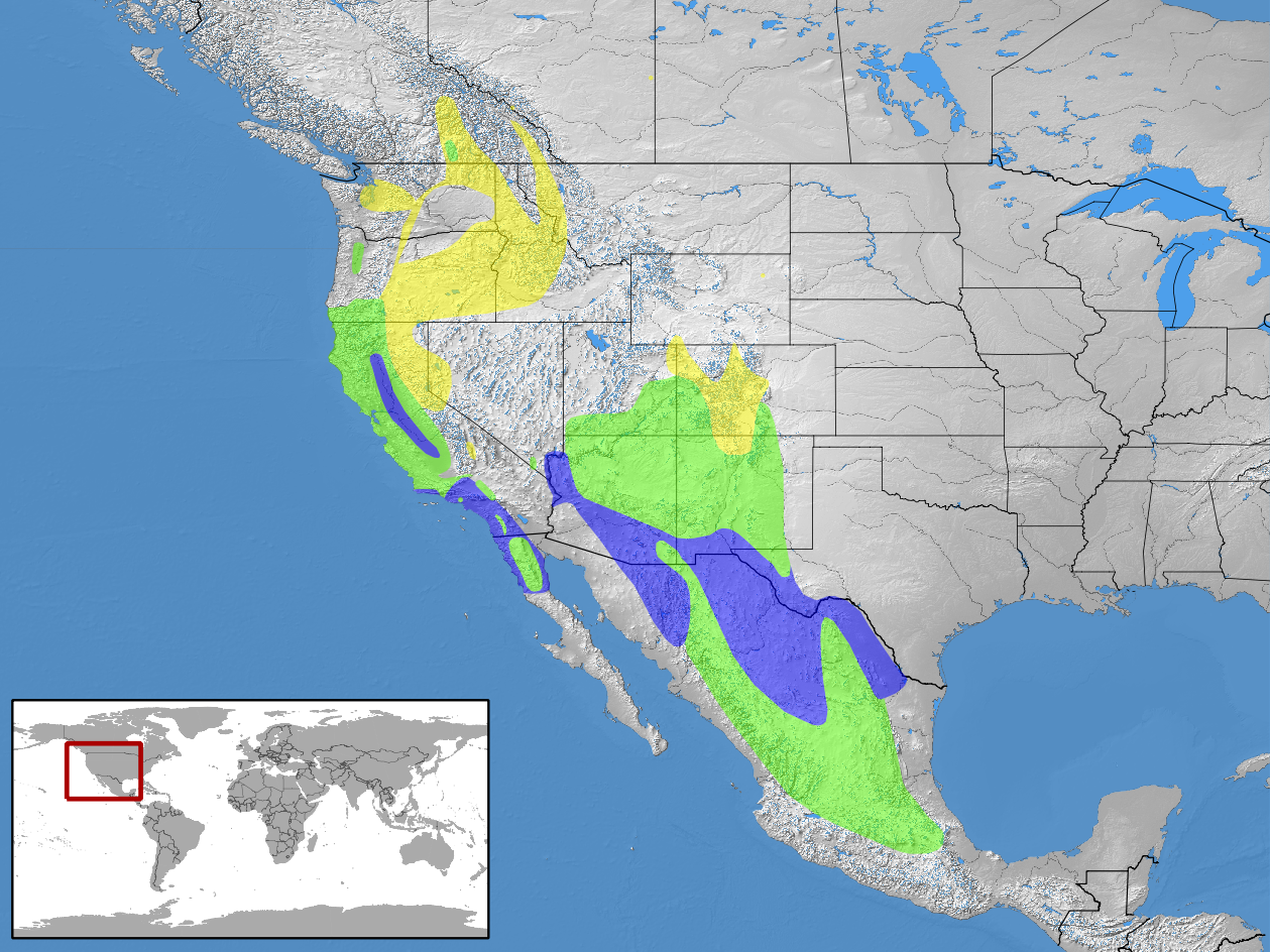 geographic distribution of Sialia mexicana Yellow: Native (breeding seasons only) Blue: Native (nonbreeding seasons only) Green: Native (year round)